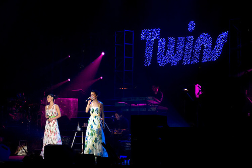 Twins